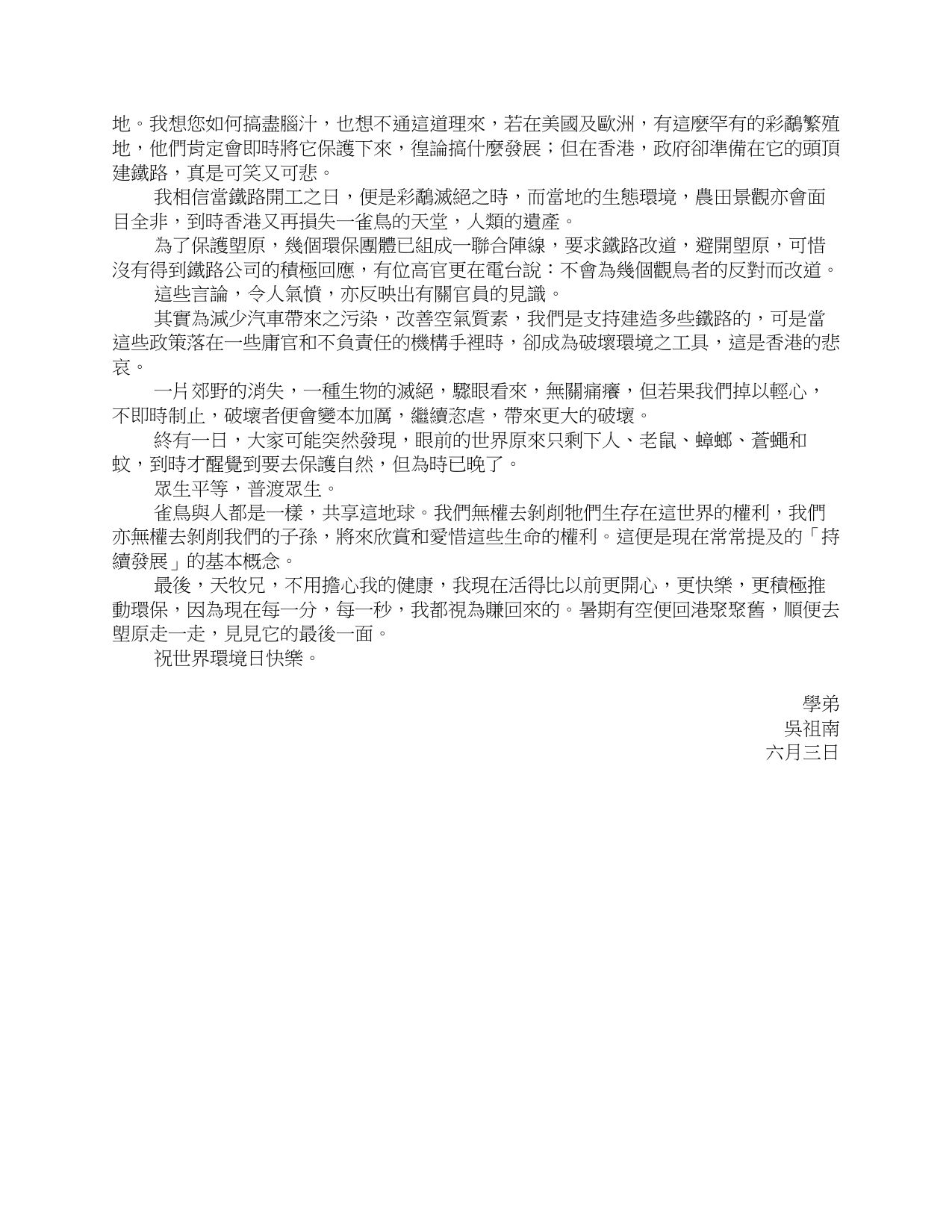 Typed version of Ng Cho Nam's letter to Hong Kong, which was broadcasted on RTHK on June 3, 2000